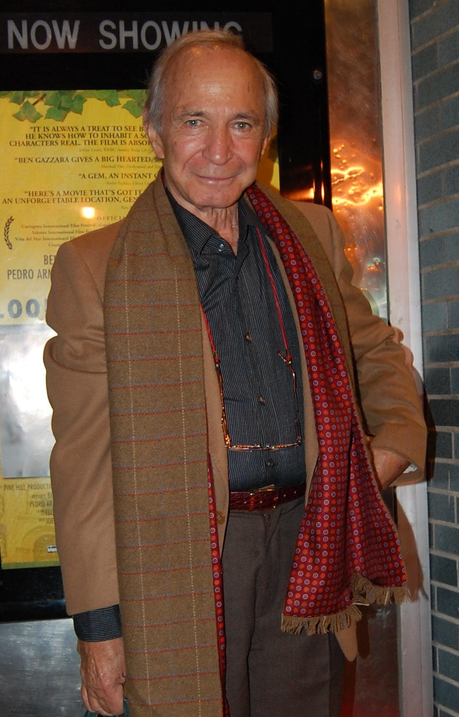 Ben Gazzara at the premiere of "Looking for Palladin," Oct. 30, 2009, Greenwich Village I am the author of this photo.